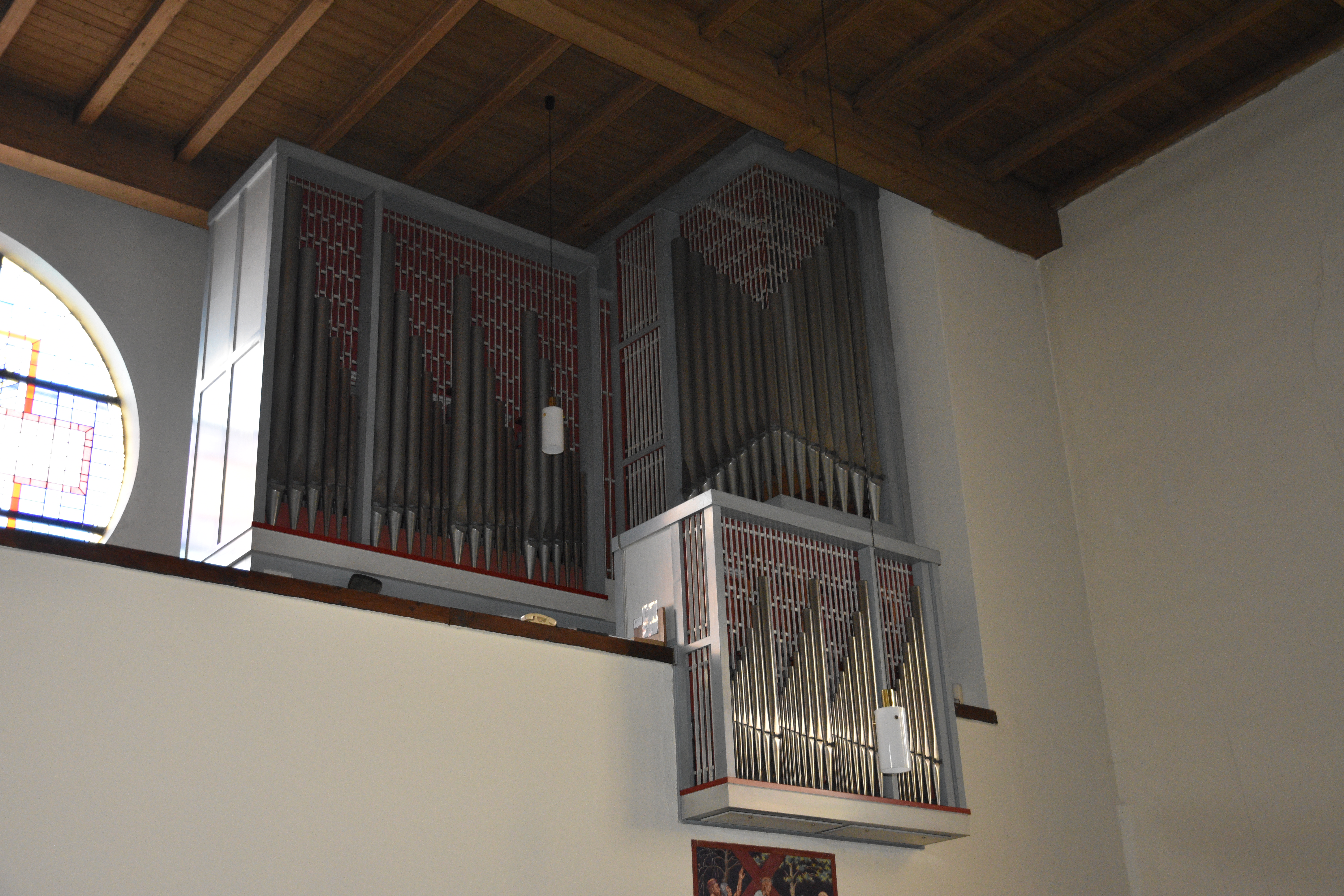 Church Oberpullendorf - Interior Pipe Organs